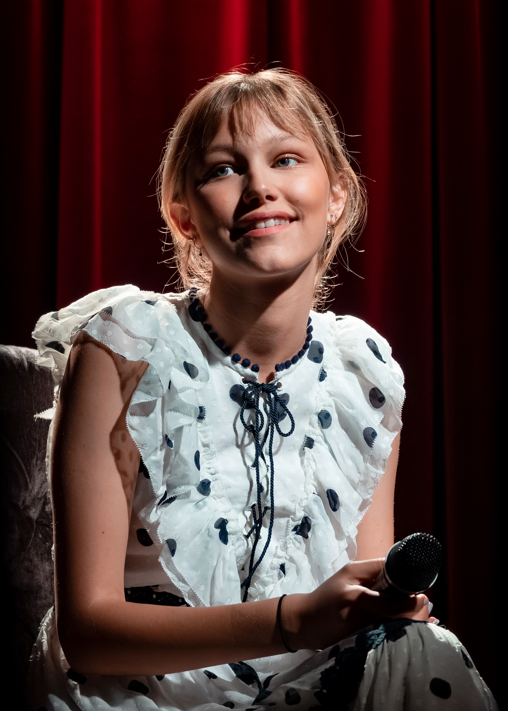 Grace VanderWaal performing live at the Grammy Museum in Los Angeles, California, on Sunday, July 22, 2018.